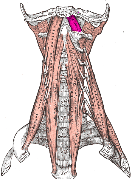 Image:Rectus capitis anterior muscle drawing from Grays' Anatomy